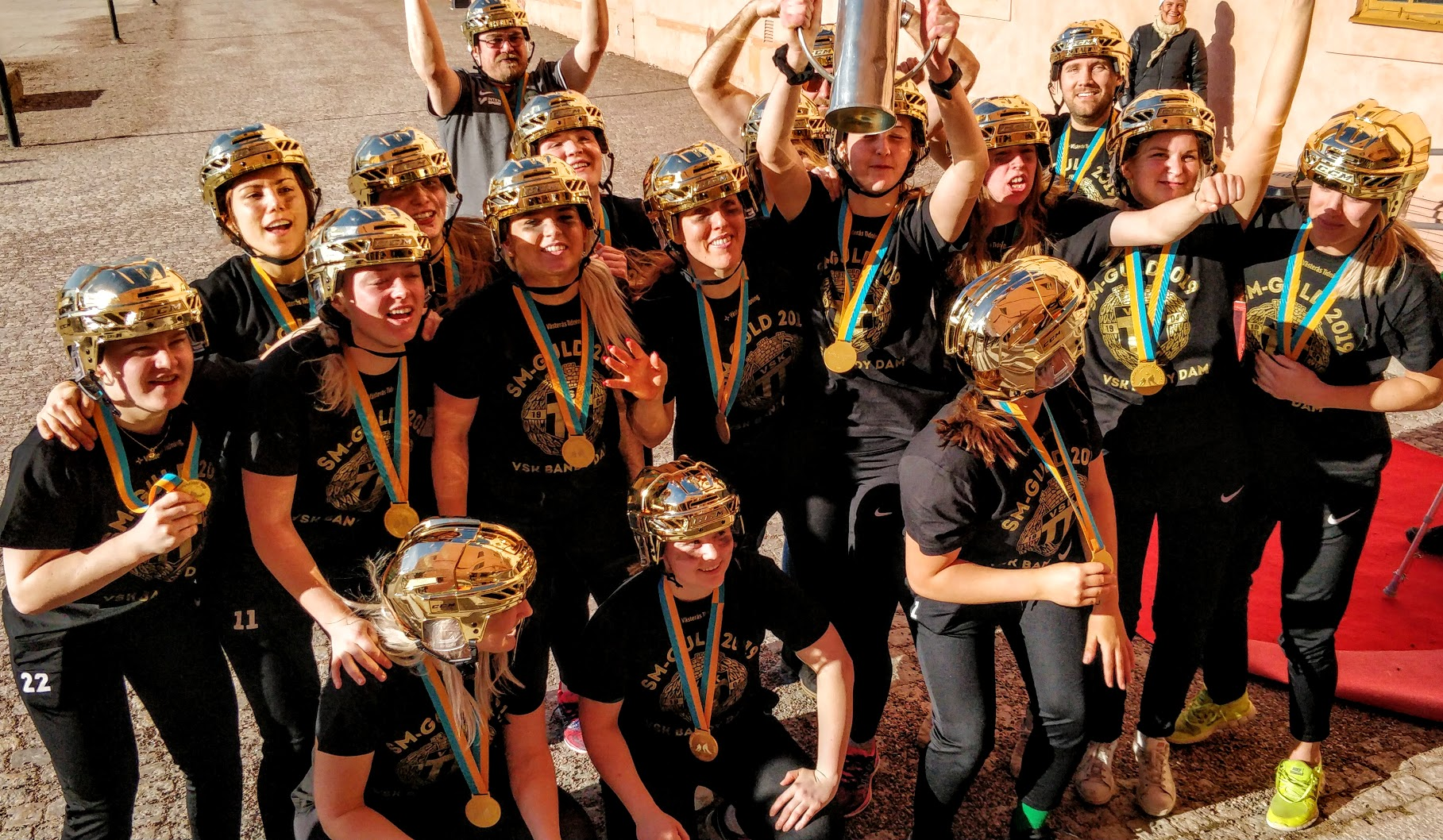 Swedish Championship i Bandy 2019, Västerås SK/BK womens team.